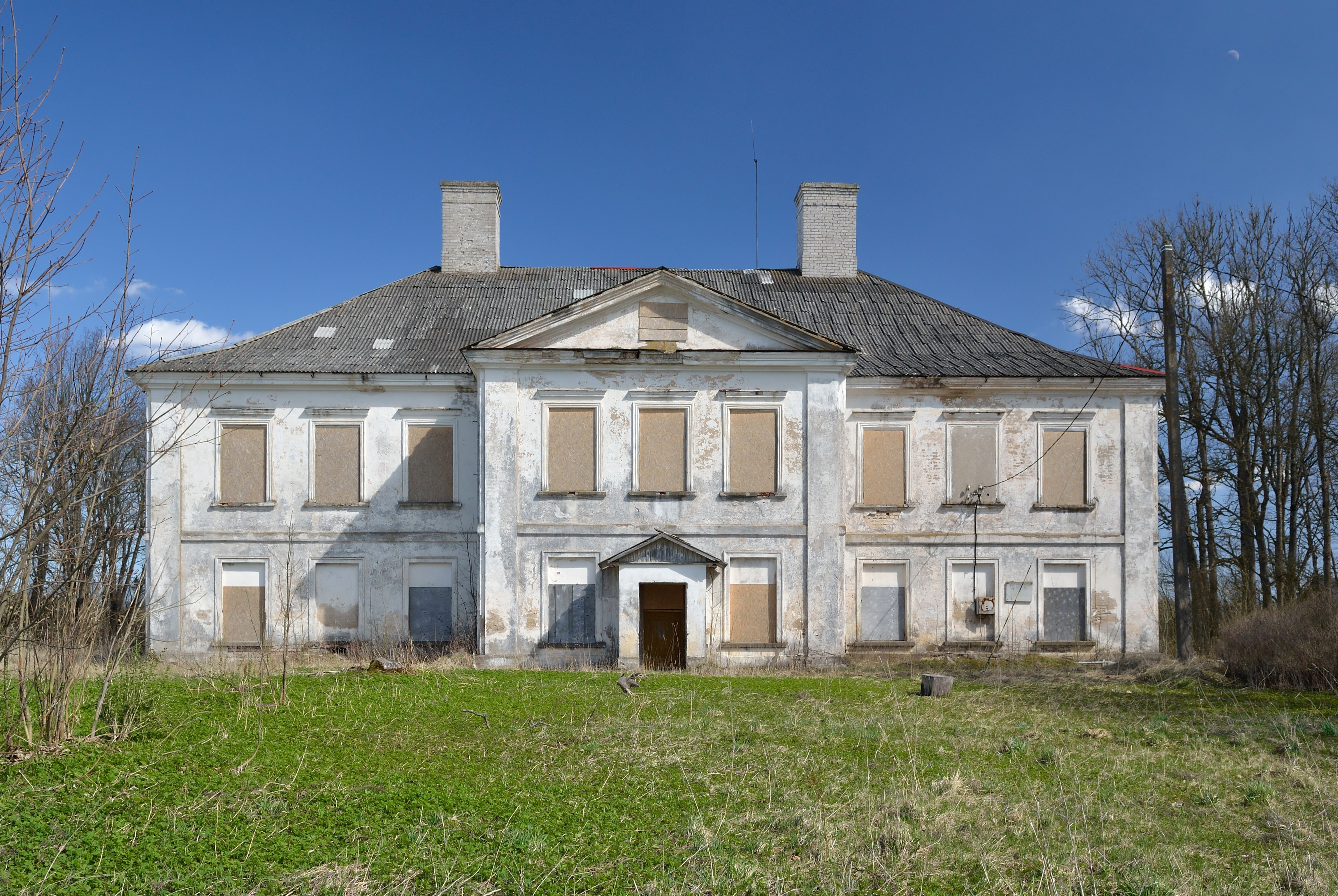 Kõo manor main building